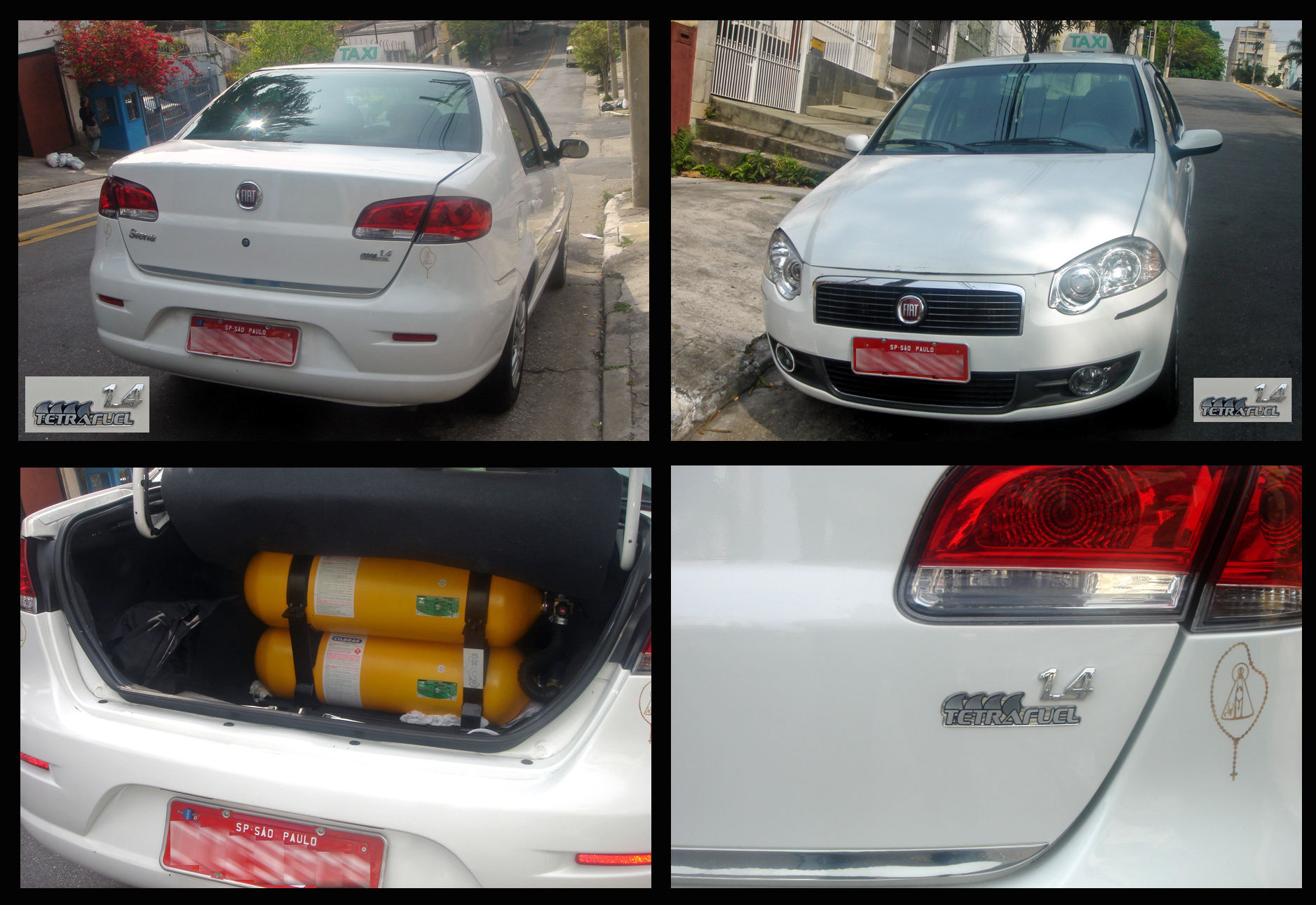 Four views of the Brazilian made 2009 Fiat Siena Tetrafuel (runs on pure gasoline -E0-, Brazilian alcohol (E20-E25), pure ethanol (E100), or any blend among the previous fuels, or on natural gas (CNG). The switch among fuels is automatic. This is a flexible-fuel + CNG vehicle